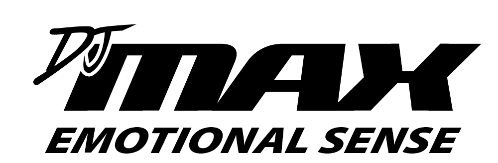 This is a logo owned by Pentavision for Describing visual style of the DJMax series.. Further details: Logo of the DJMax series.